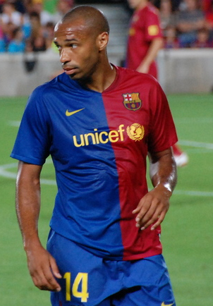 A photo of Thierry Henry, taken during Joan Gamper Trophy 2008 by Shay and cropped by me